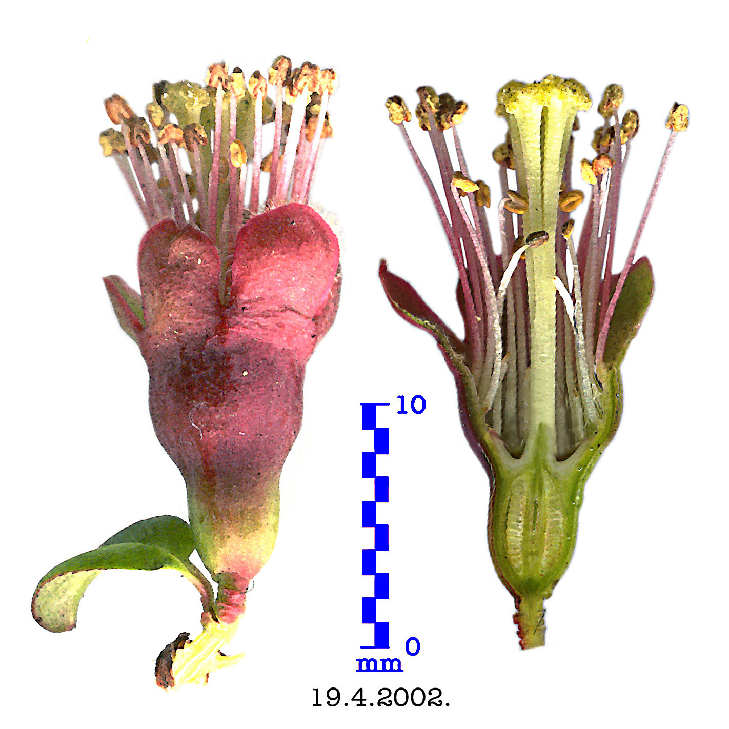 Longitudinal cut through flower of Chaenomeles japonica